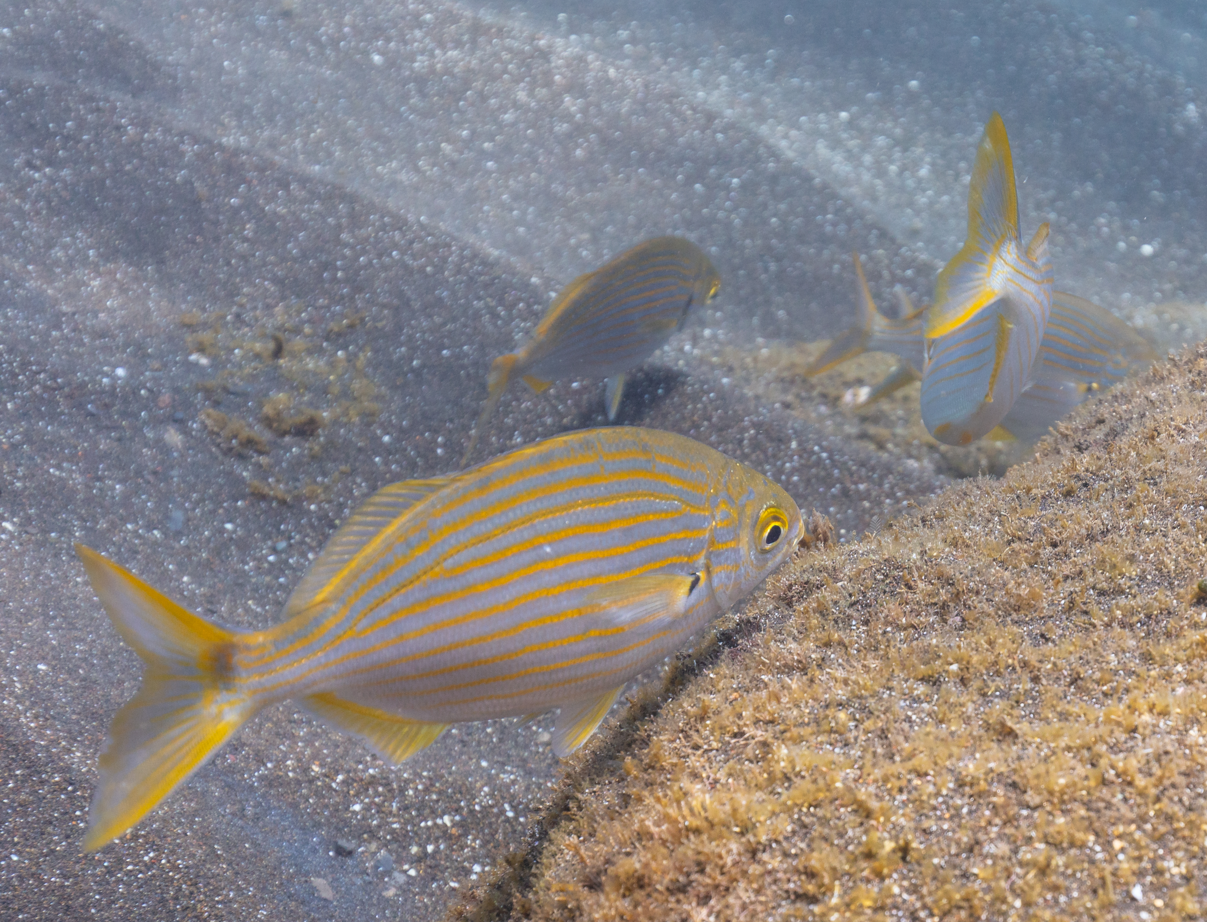 Salema porgy (Sarpa salpa), Madeira, Portugal